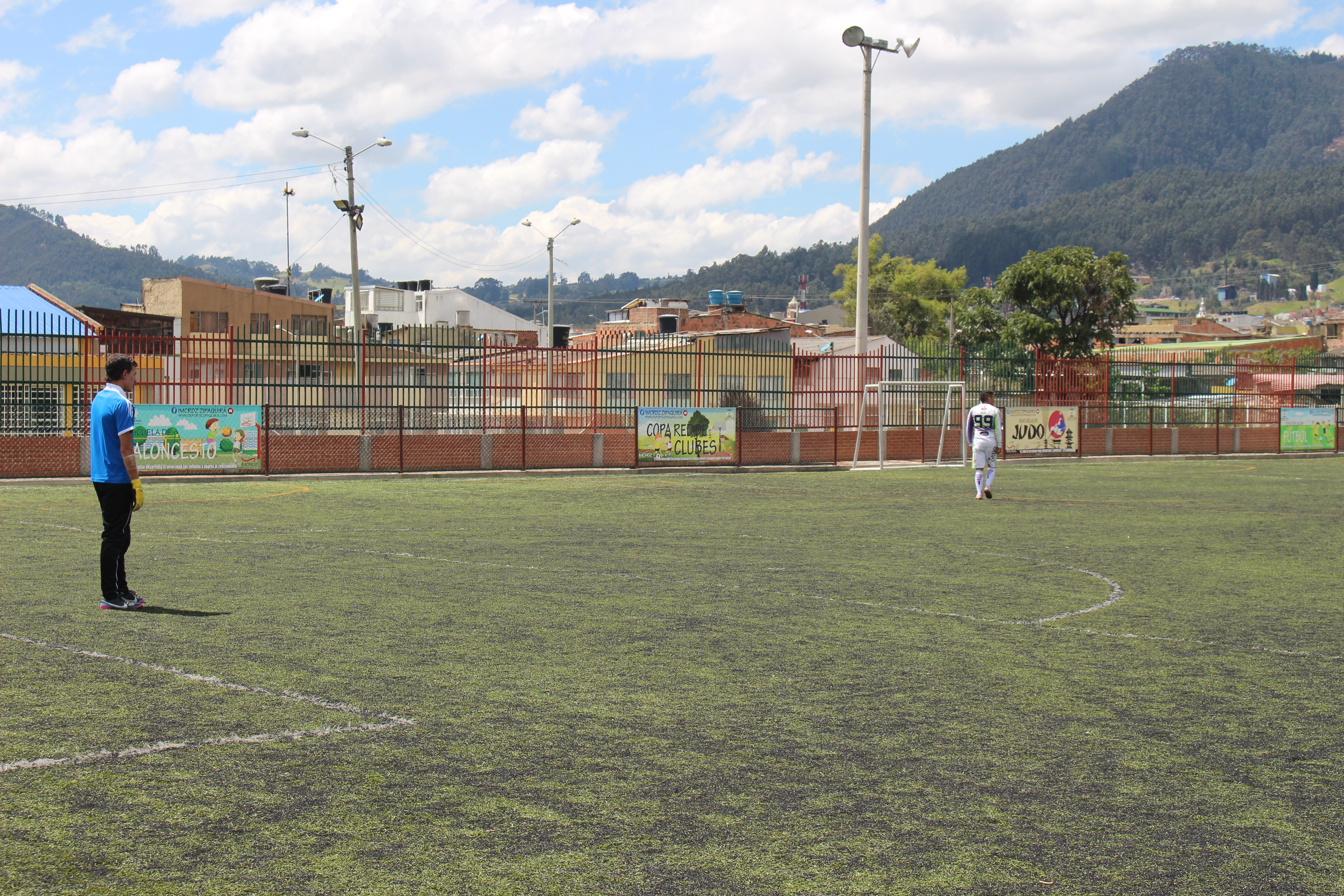 imcrdz